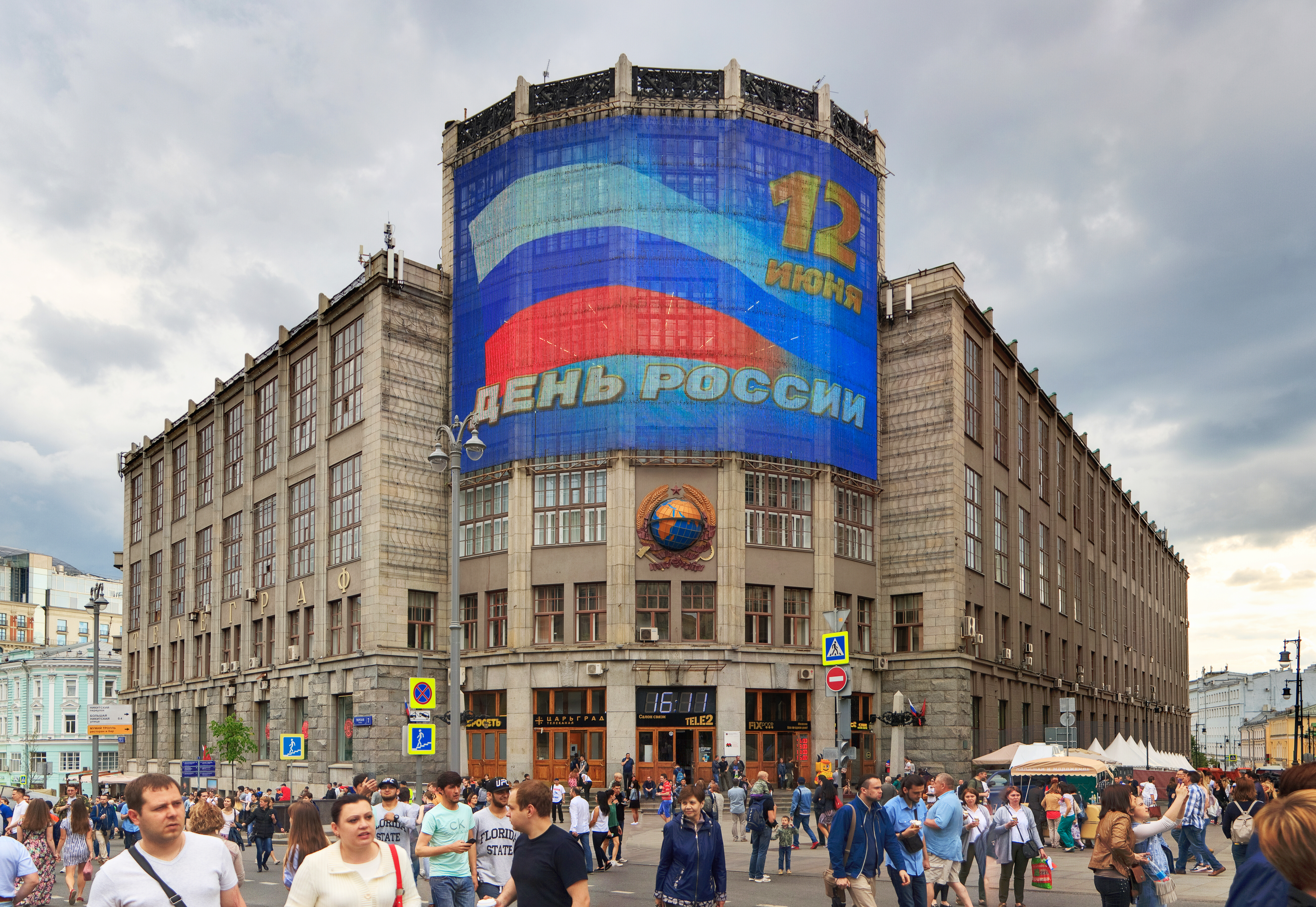 Central Telegraph building in Moscow, Russia